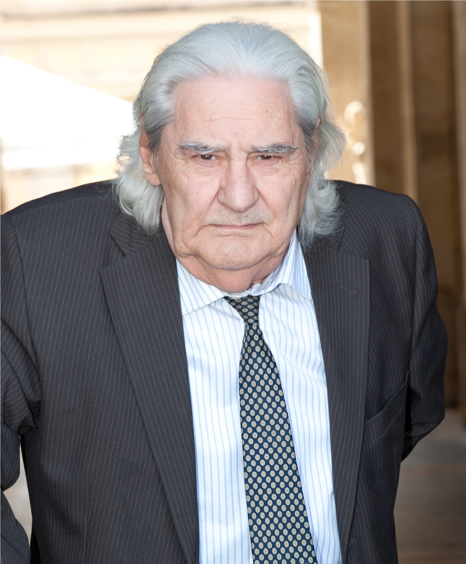 Expressionist painter , portraitist , through the art of painting seeks and finds redemption lyrical intrusiveness scientific rationalist , free from academic formalism invented painted subjects , using techniques oil on canvas, gouache, pastel . He paints the Blue Stone Oil on canvas, 1973 1974 , showing a large central stone of blue, under a strong message , obliged , sums up the path of all in a stone to be overcome, the weight of existence. Eugenio Montale in 1973, writes: " The poem does not have a moment when it is there forever like a stone ." Find , paints Poetry in other subjects , Dreams of Spring Mountain High oil on canvas , 1974 and Summer 1975 the paintings Trees Blue from 1973 to 2011 . There followed other paintings with the same intensity of expression , the Yellow Mountain in 1991 , a series called fronds Red oil on canvas, September 1980 , Fronds Red 1993, 1994 , Woods of Fronds Red 1999 invented numerous landscapes , seascapes, portraits.